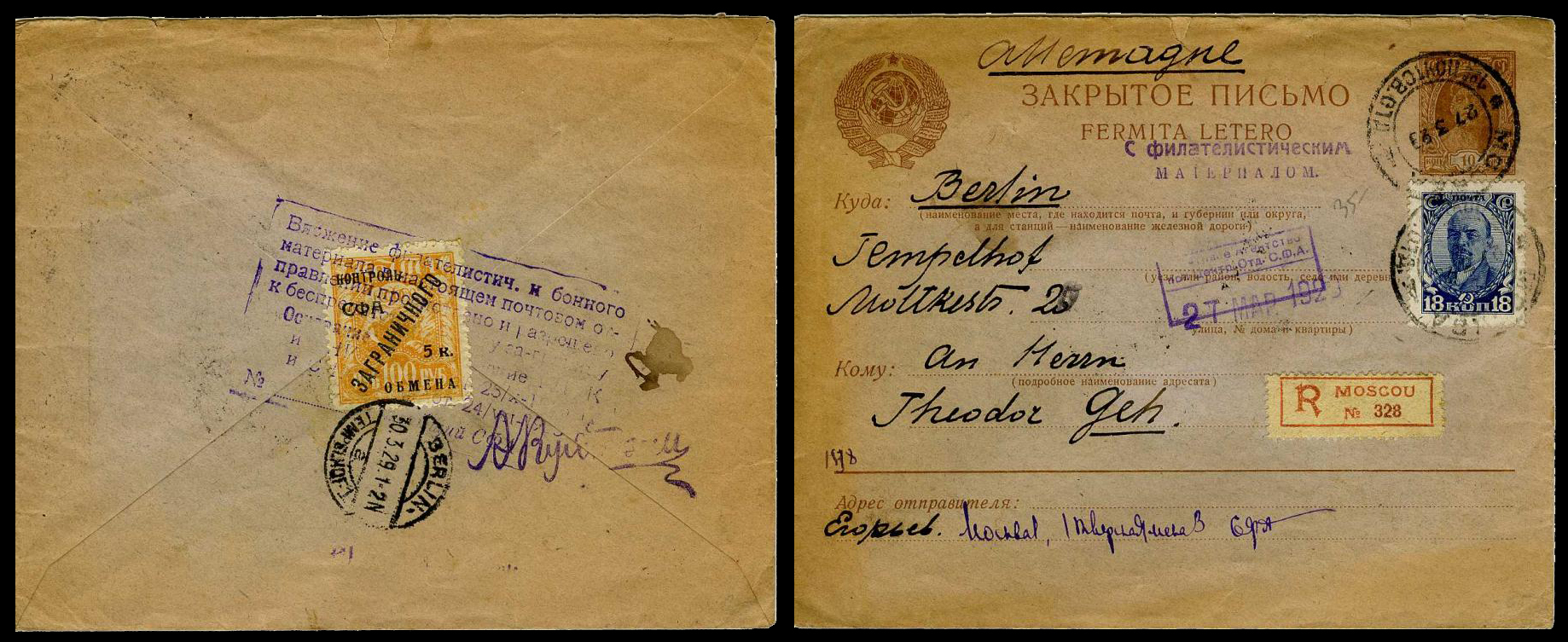 Registered letter (closed letter) with a stamp of the control of foreign exchange issued by the Soviet Philatelic Association, 1928.